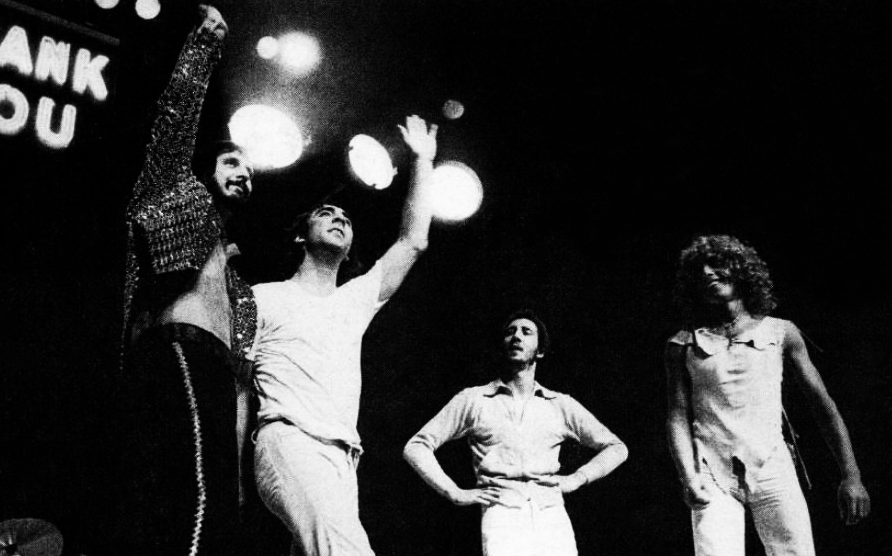 Trade ad for King Biscuit Flower Hour featuring The Who. To better adapt it to his respective Wikipedia article, the ad was cropped and cleaned in a graphics editing program. The original can be viewed at the source below.